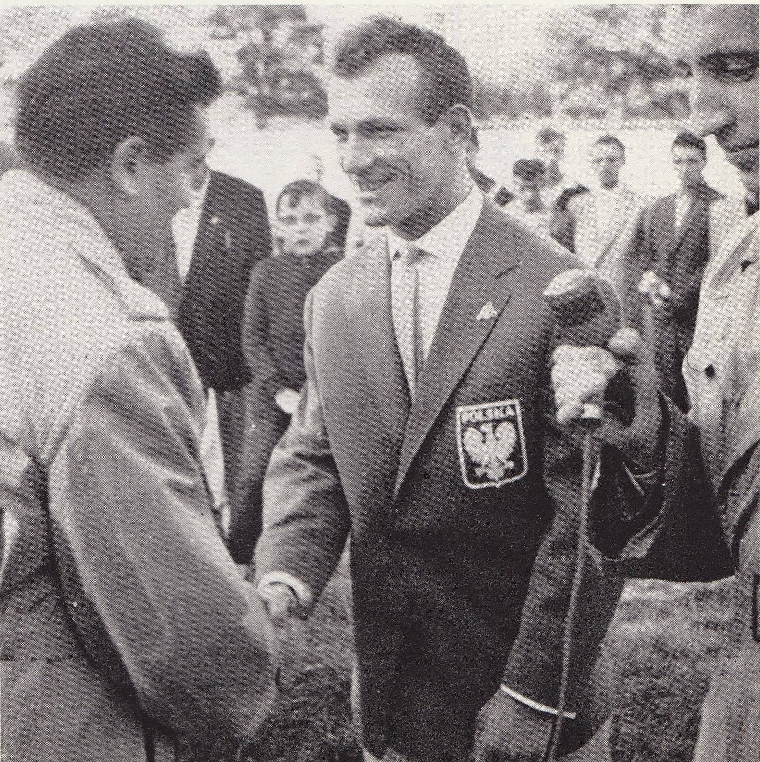 Kazimierz Paździor, Polish Boxer, Olympian